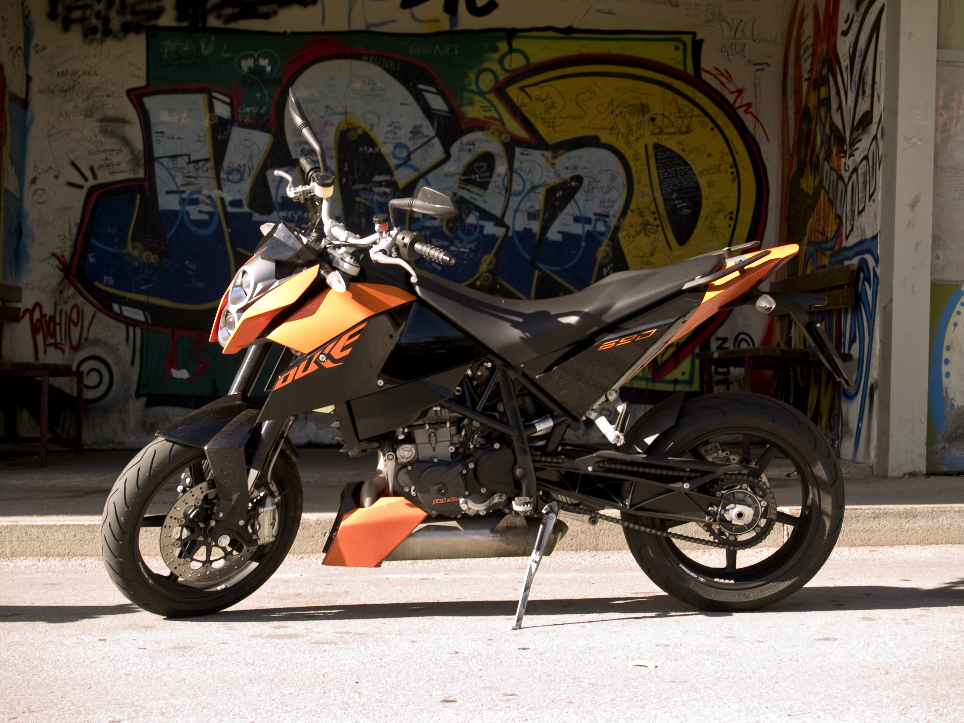 KTM 690 Duke (Duke III) 2008 - my own bike at a bus station in Eisenerz in Styria/Austria